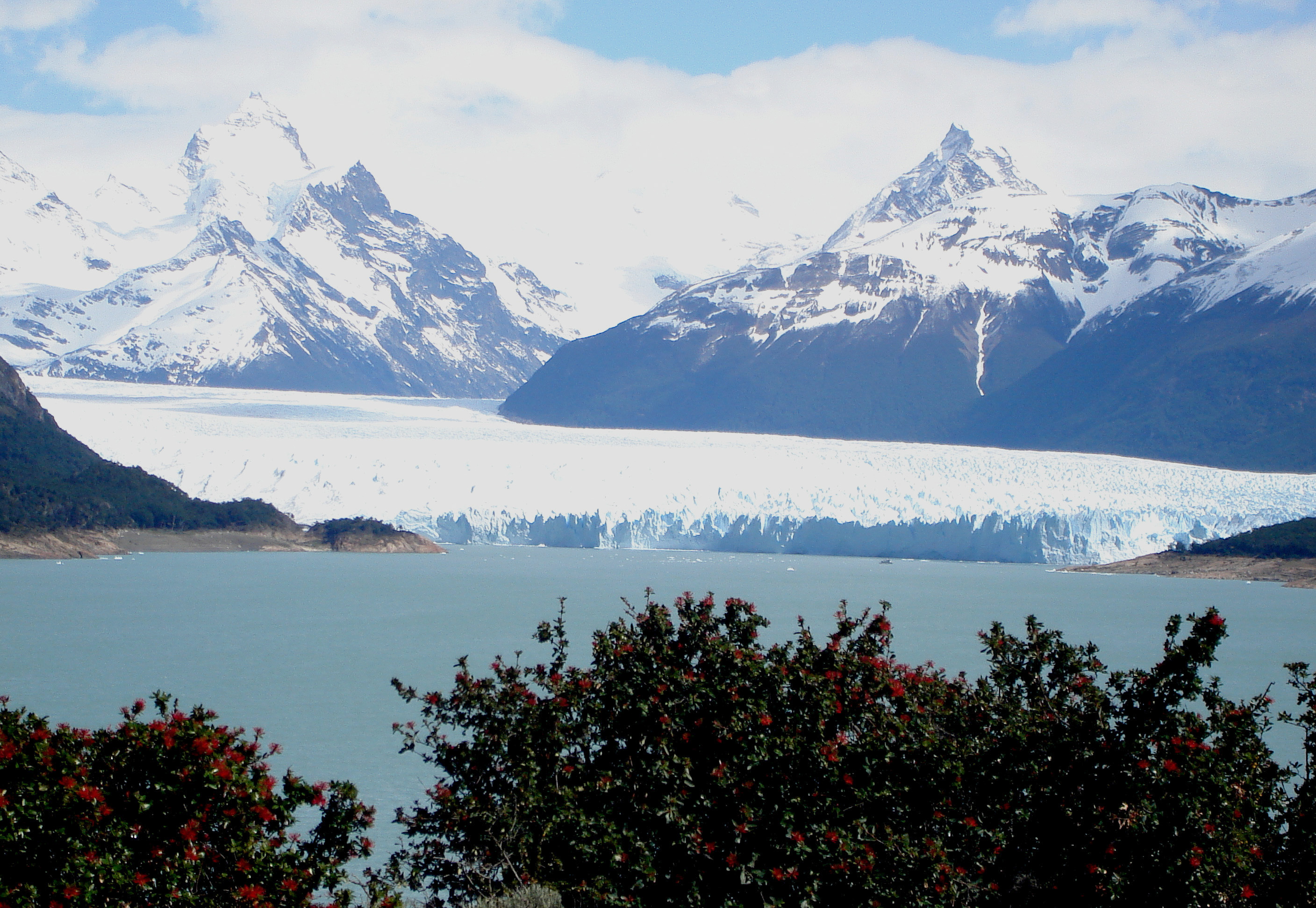 Beginning of Moreno Glacier